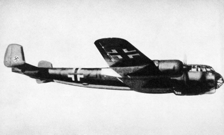 Photo of a German Dornier Do 217E-2 bomber, ca. 1942